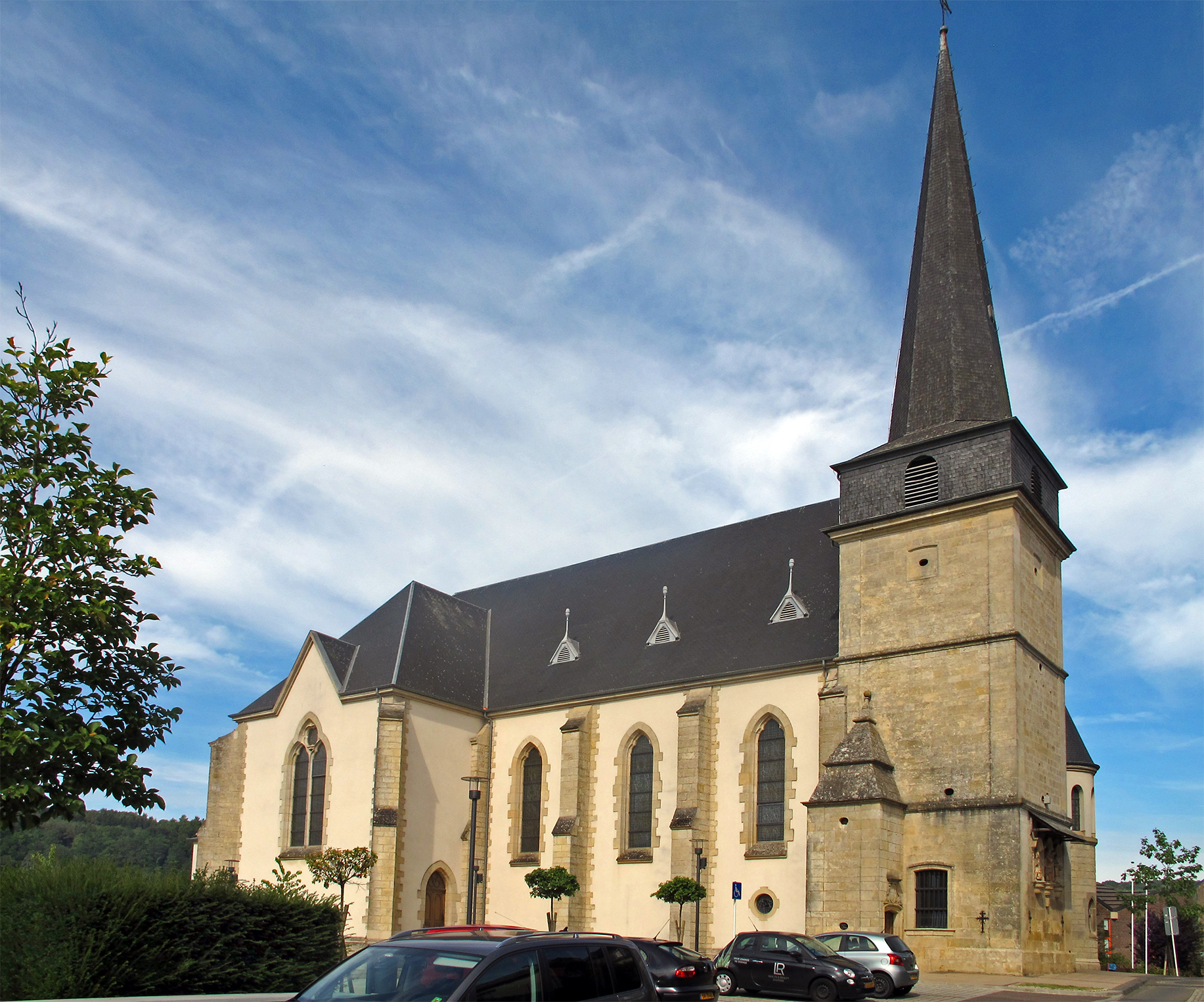 Church of Oberkorn, Luxembourg